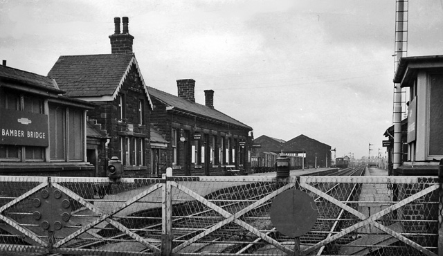 Bamber Bridge Station. Westward view from crossing of A49, towards Preston and (until 4/11/71) Liverpool (Exchange), on main line from Burnley and Blackburn.